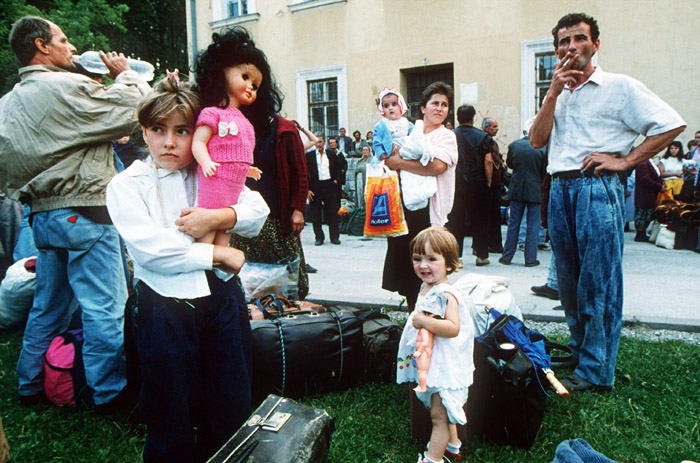 A refugee girl holds her doll as she arrives with her family in Travnik, during the war in Bosnia and Herzegovina, 1993.